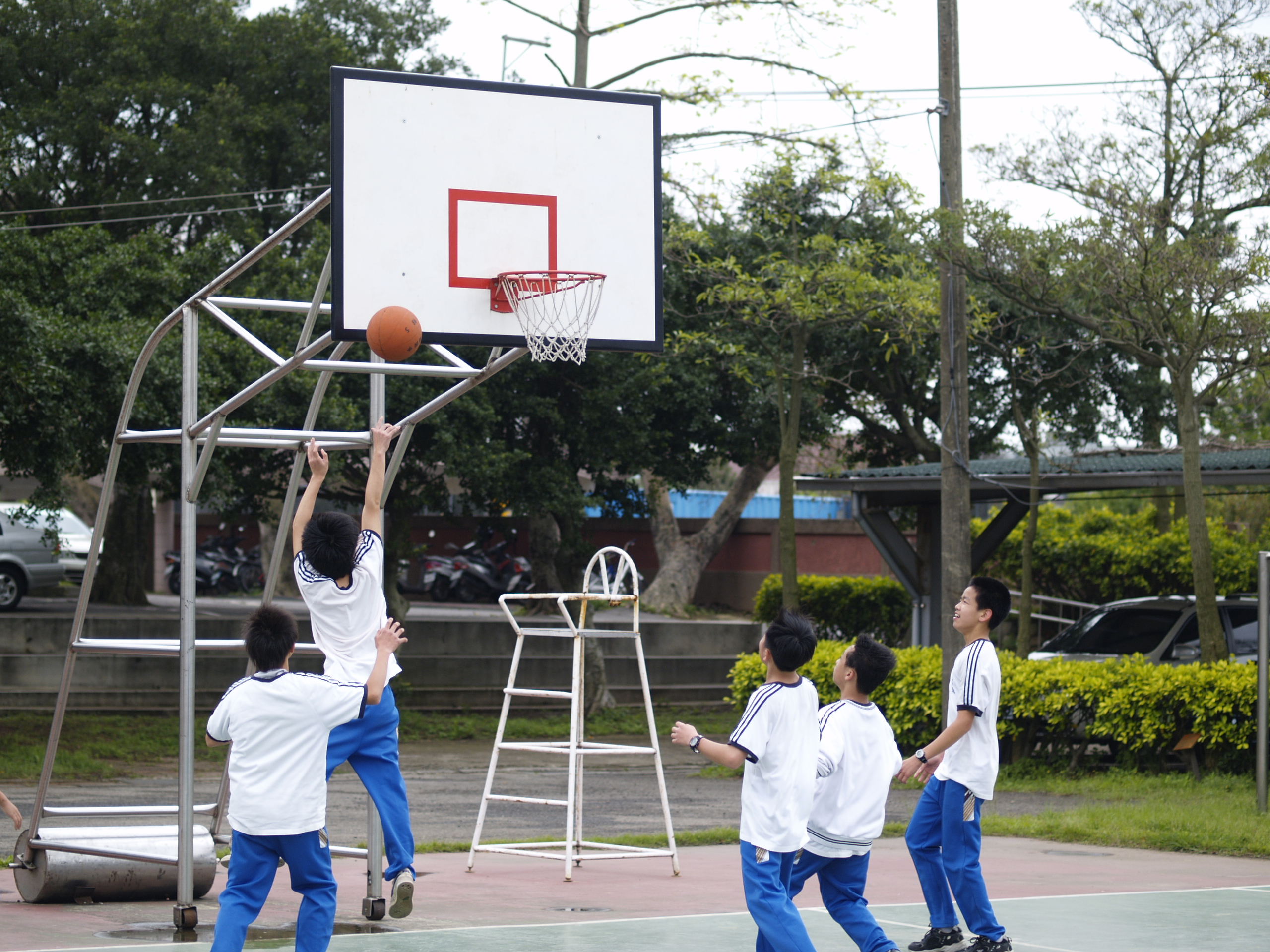 The school boys playing basketball in Hsin-Hu Junior High School in Hsinchu County, Taiwan.